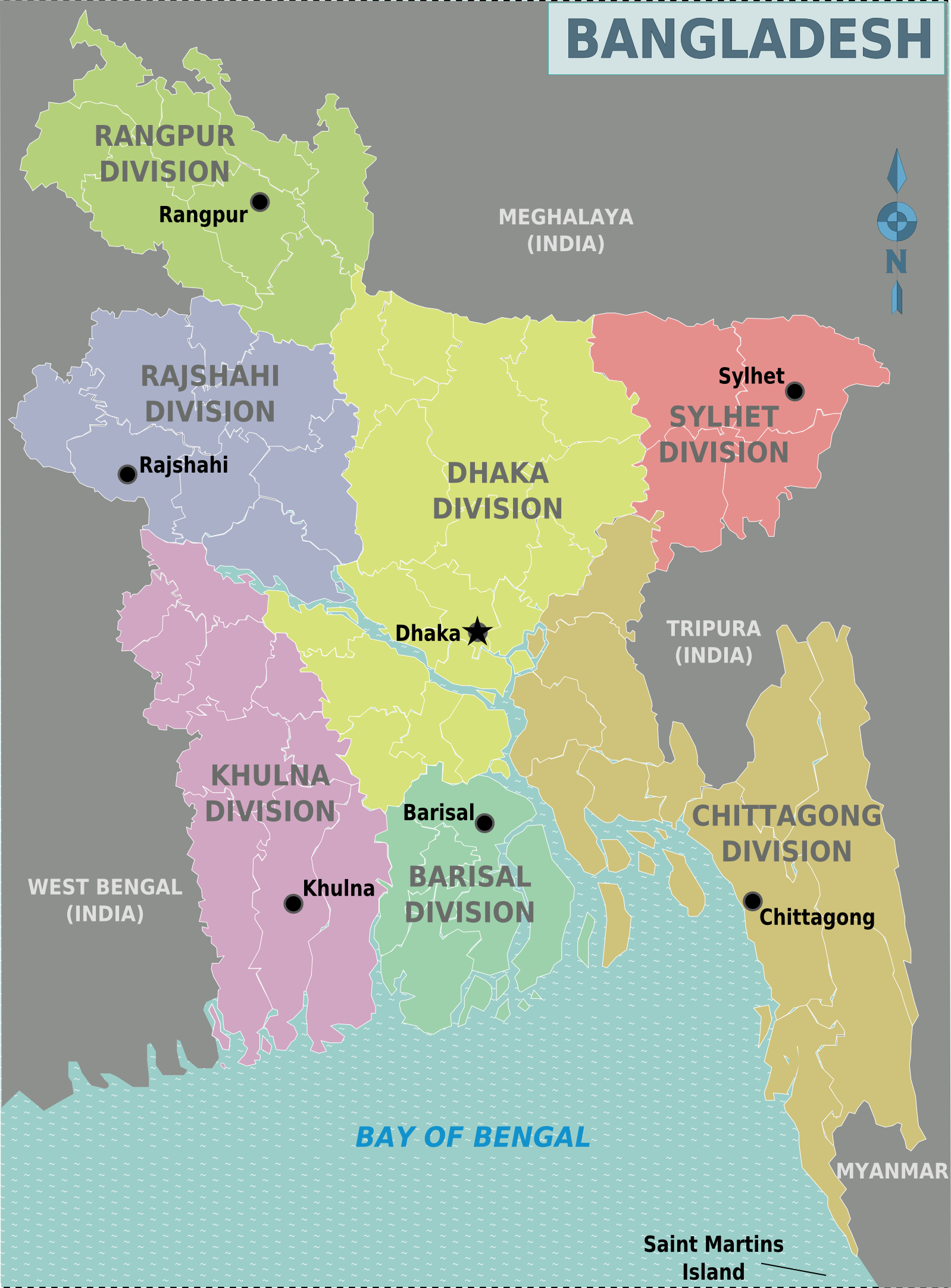 Bangladesh regions (Wikivoyage regional scheme), English version